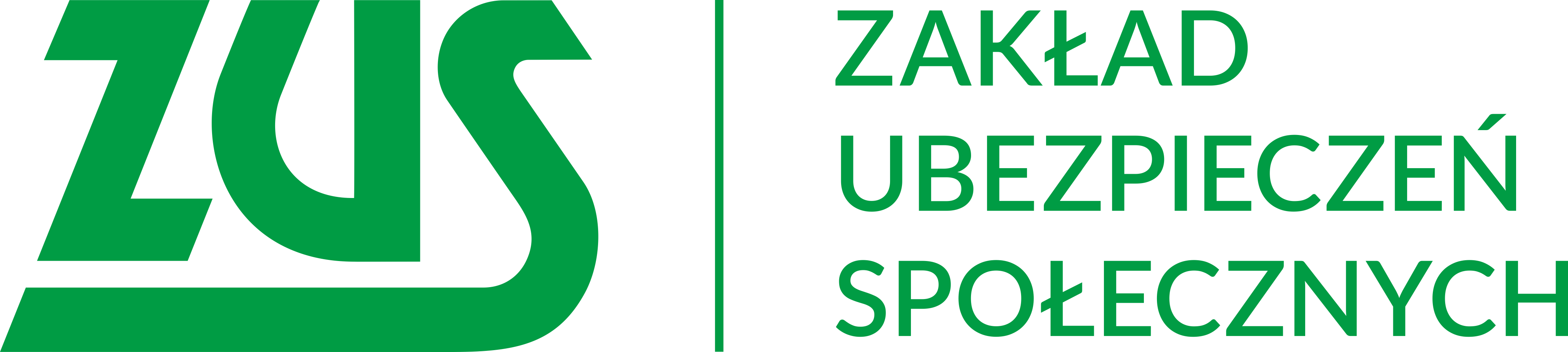 Logo ZUS